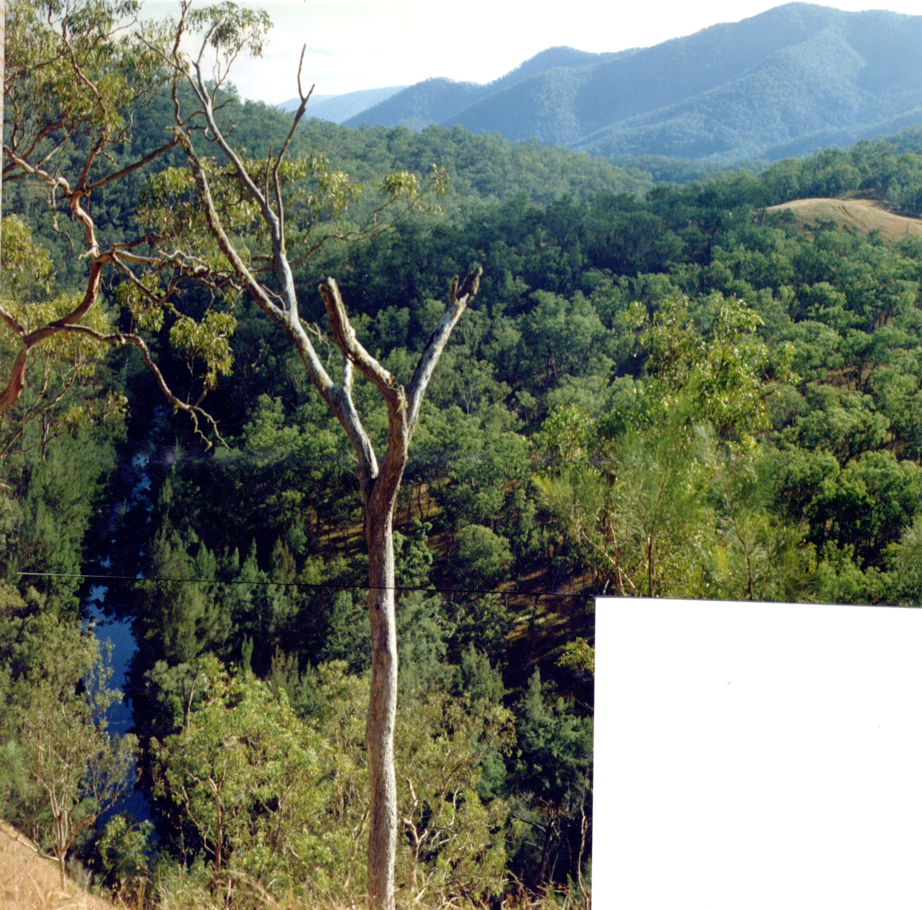 Kunderang Brook where the Bicentennial National Trail follows the brook to the Macleay River